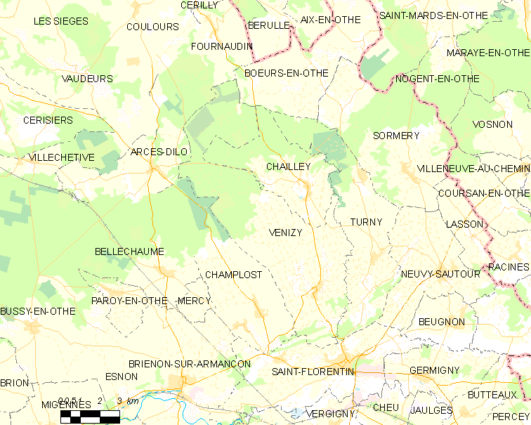 Map of French municipality Venizy